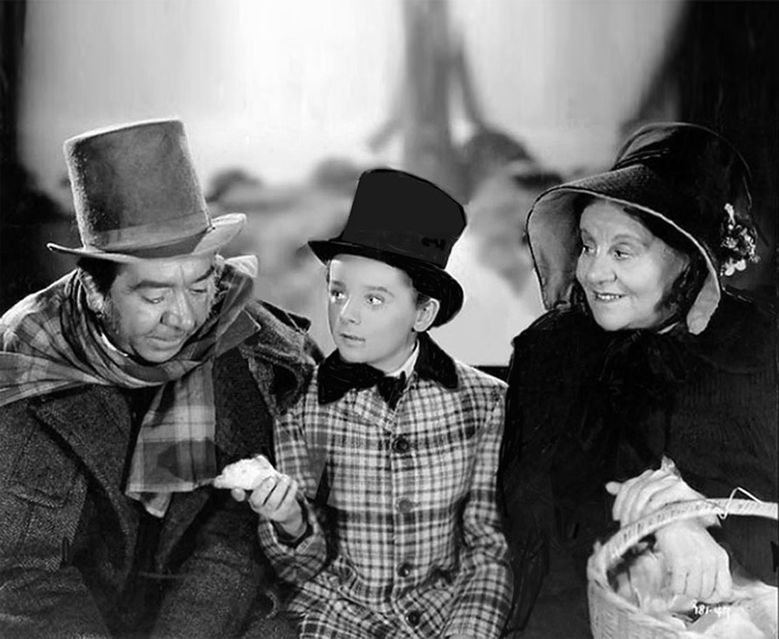 Promotional still from the 1935 film David Copperfield, published in National Board of Review Magazine. L-R: Herbert Mundin, Freddie Bartholomew, and Jessie Ralph